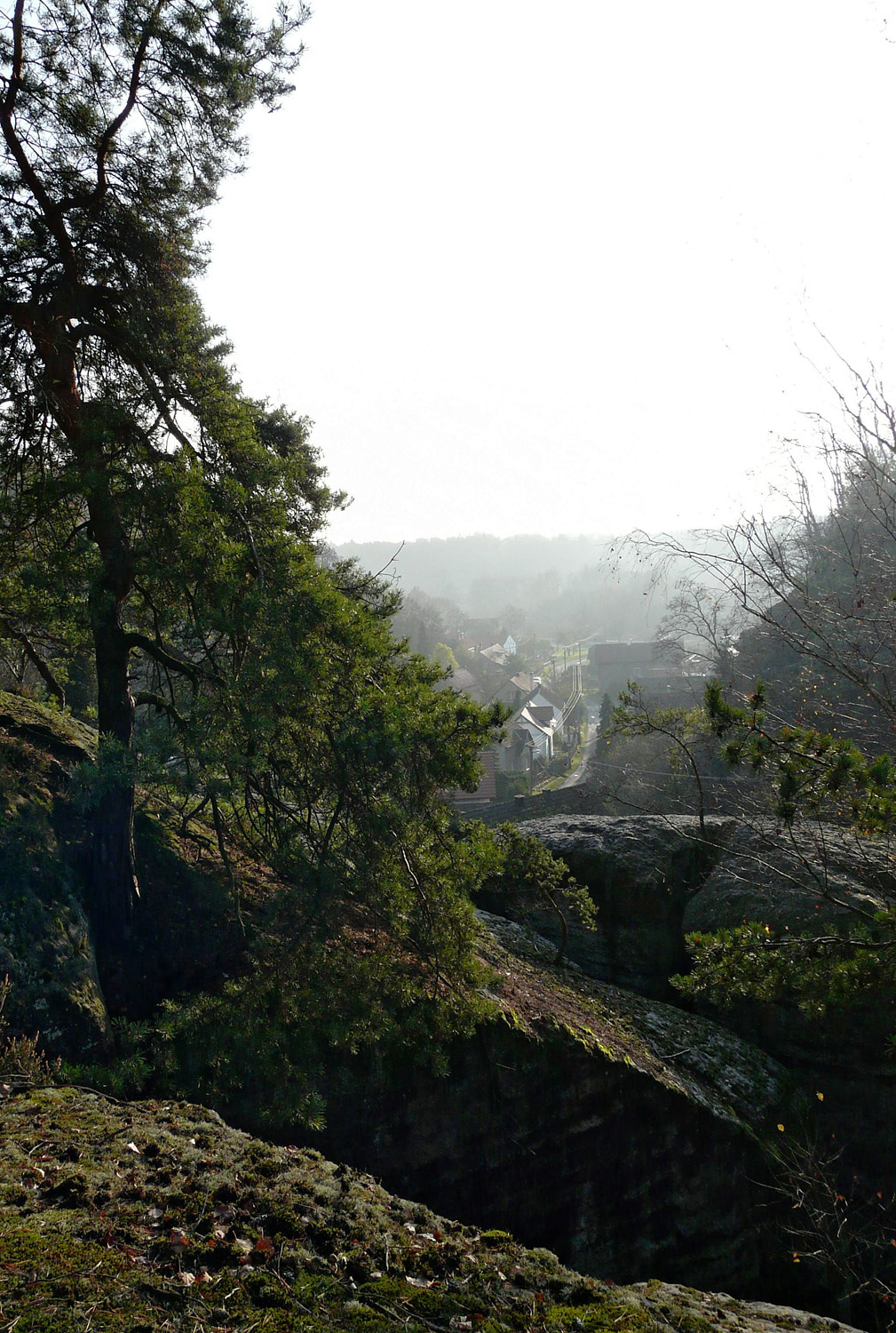 Holy vrch - National Nature Monument